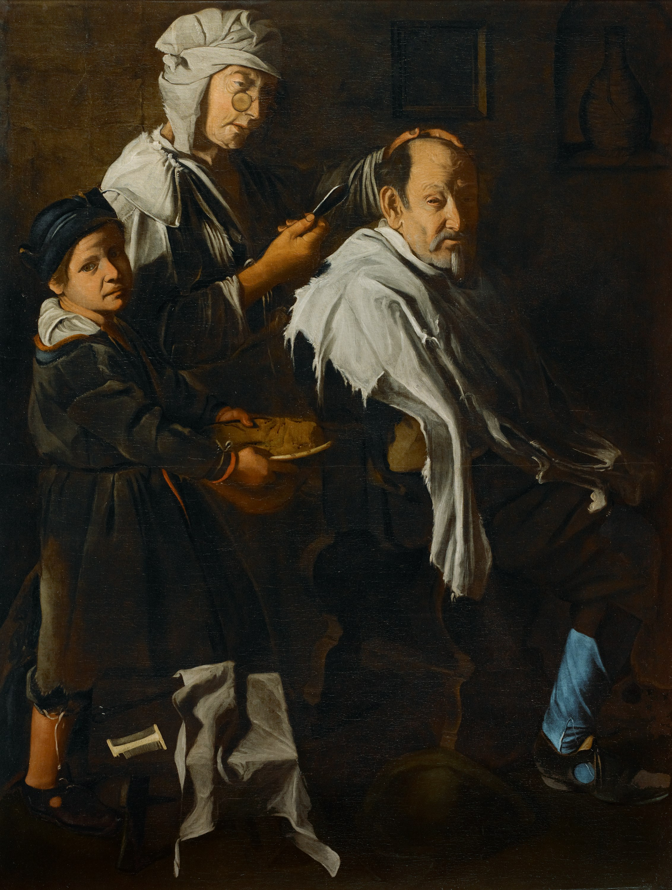 The barber